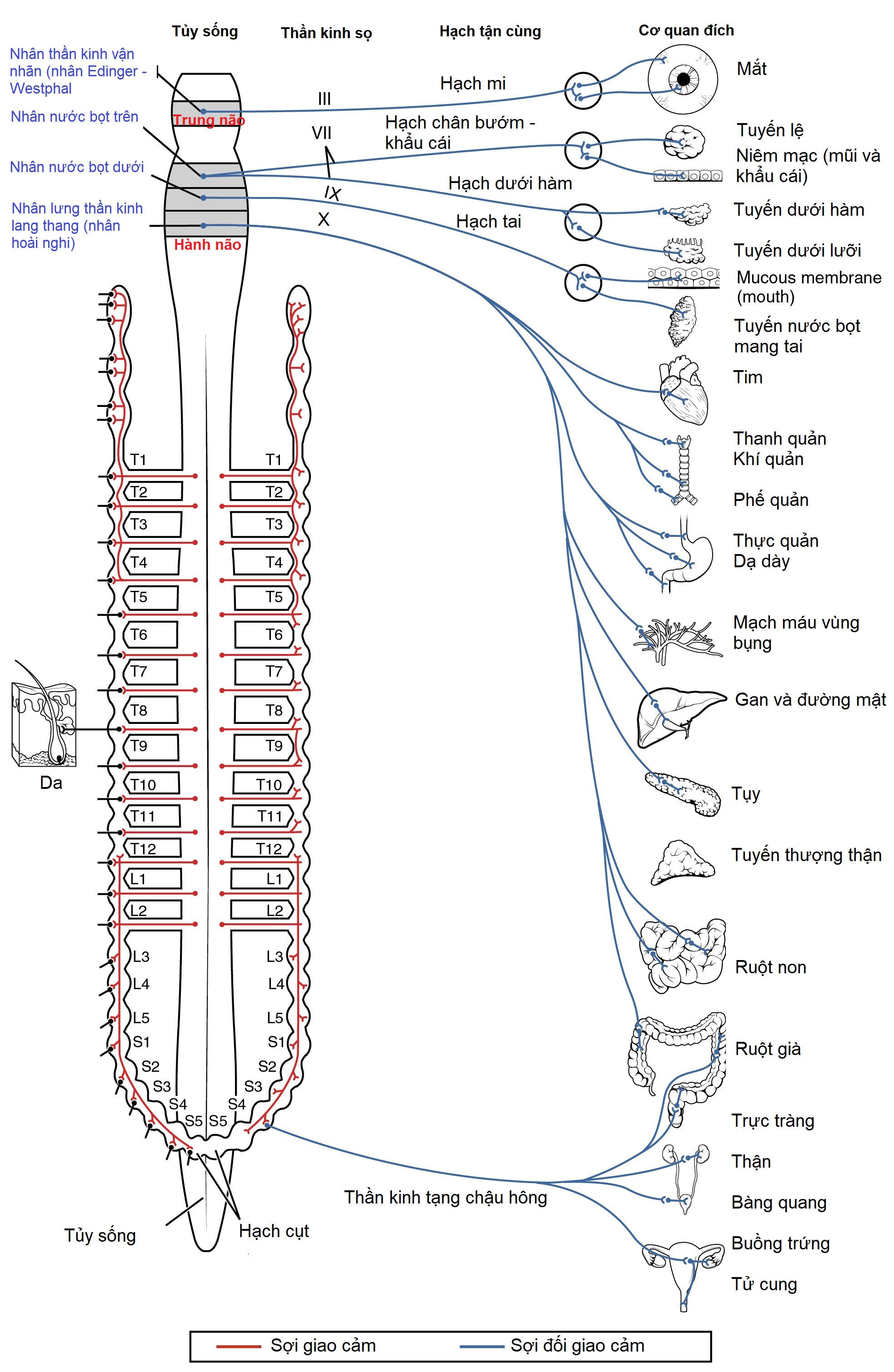 Source: Illustration from Anatomy & Physiology, Connexions Web site. Jun 19, 2013. Translate: File:1503 Connections of the Parasympathetic Nervous System.jpg